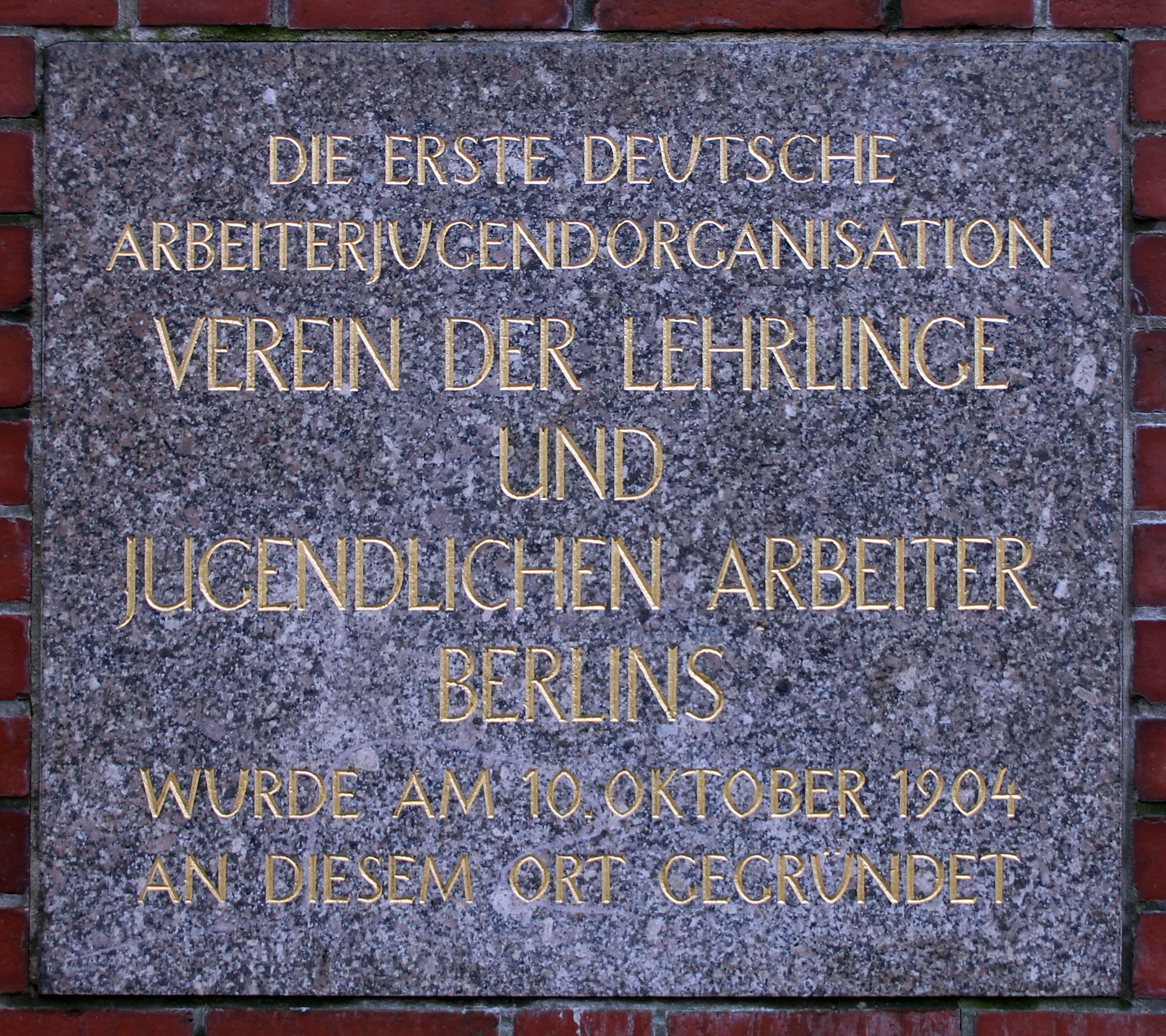 Memorial plaque, Verein der Lehrlinge und jugendlichen Arbeiter Berlins, Berolinastraße 12, Berlin-Mitte, Germany